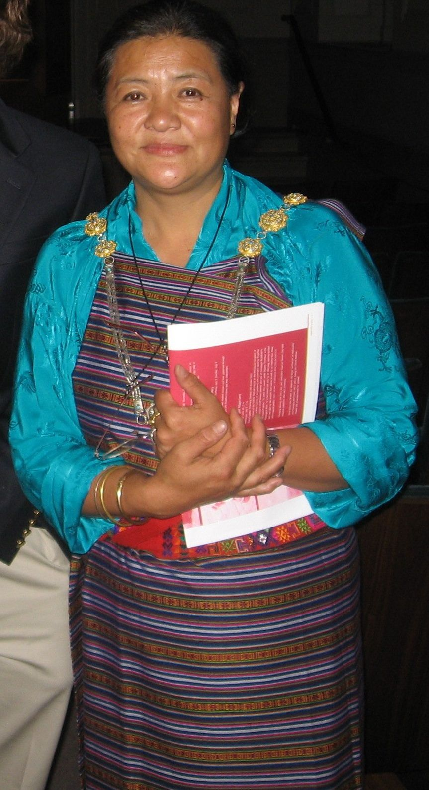 This is Bhutanese author Kunzang Choden. She took this picture with me after a book reading at the Smithsonian. I have cropped myself out of this picture poorly.